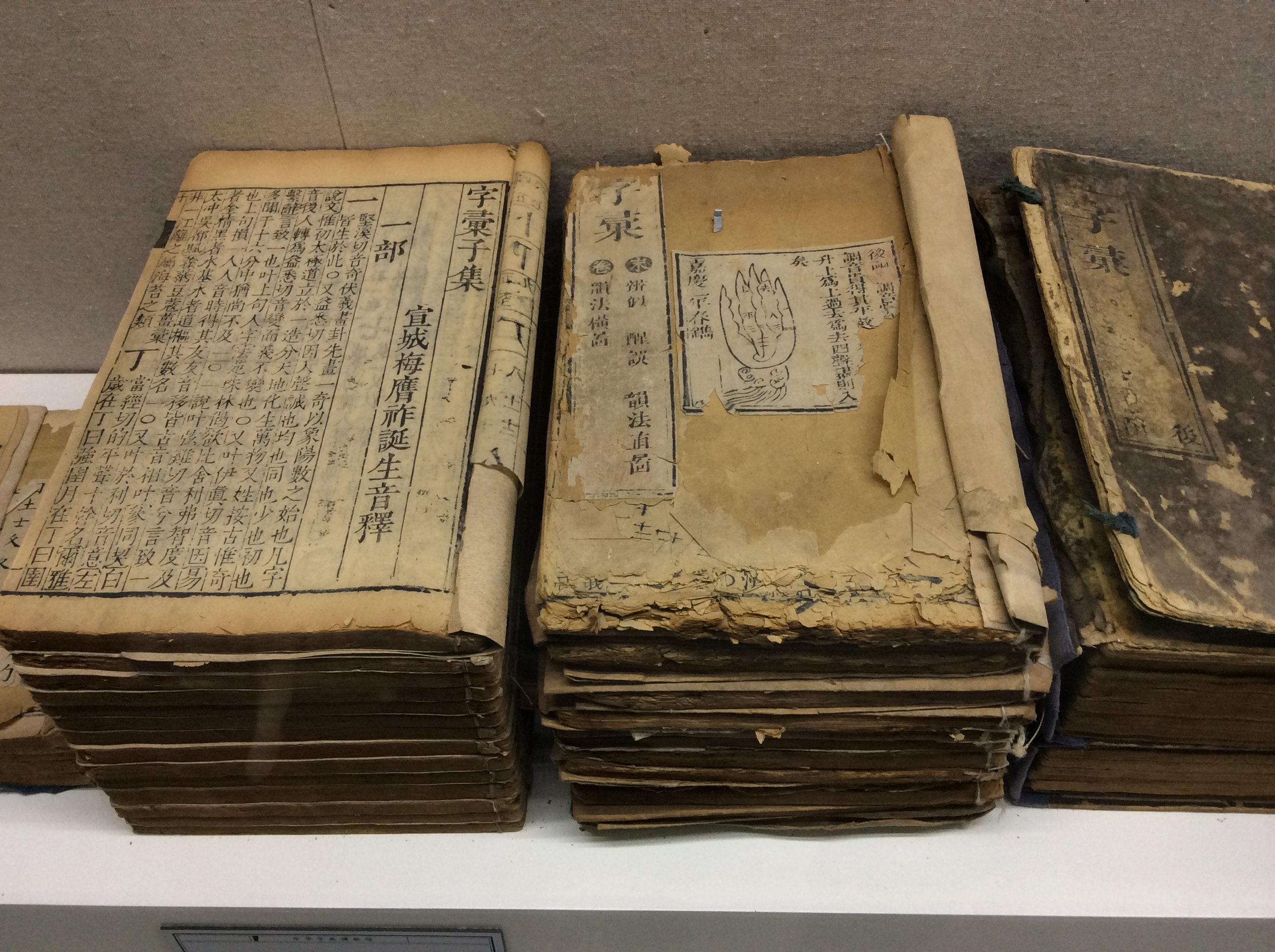 Zihui (字彙) exhibit in the Chinese Dictionary Museum, on the grounds of Huangcheng Xiangfu